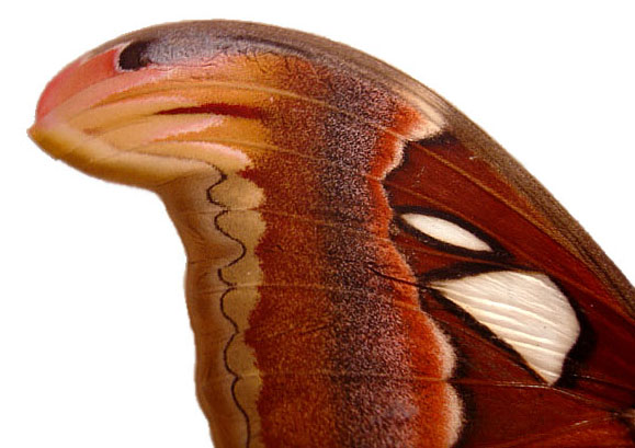 Photograph of a female Atlas moth (Attacus atlas) forewing by Gregory Phillips. Taken in December 2003 and released under terms of the GNU FDL.